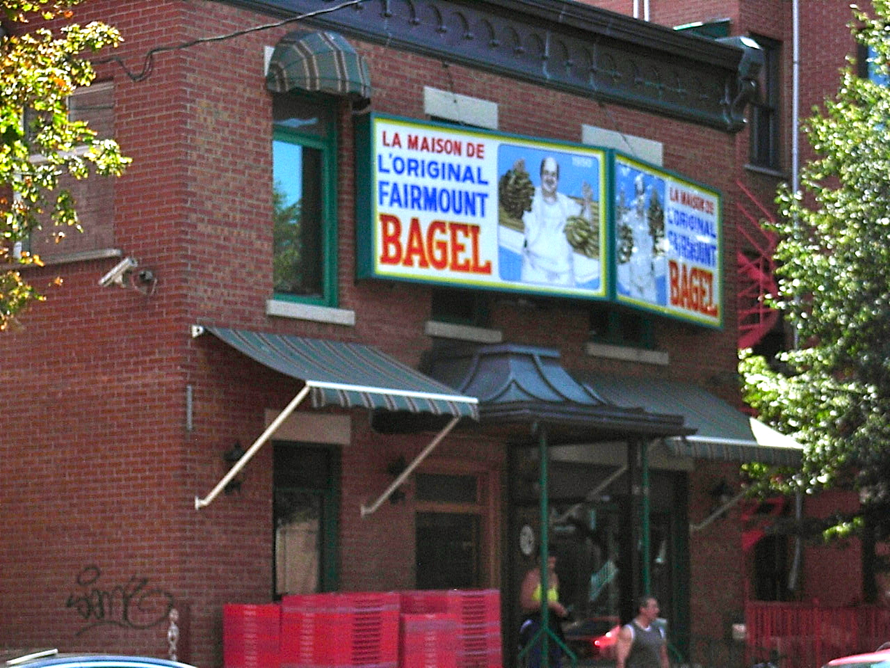 Fairmount Bagel, in Montreal.